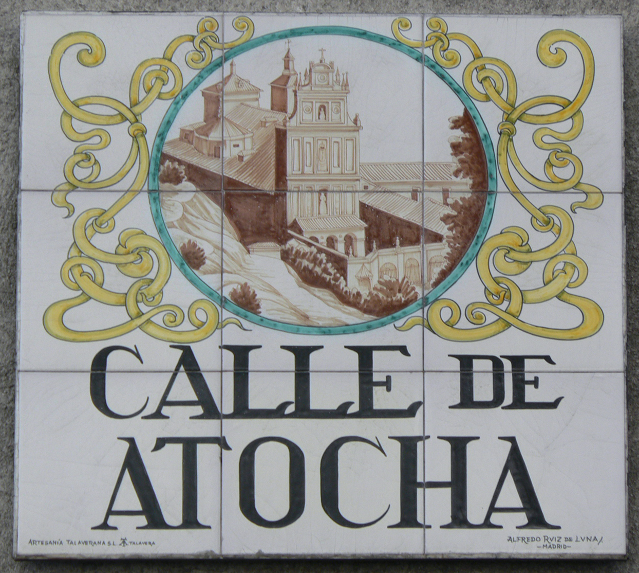 Sign of Calle de Atocha (street, Centro district) in Madrid (Spain).